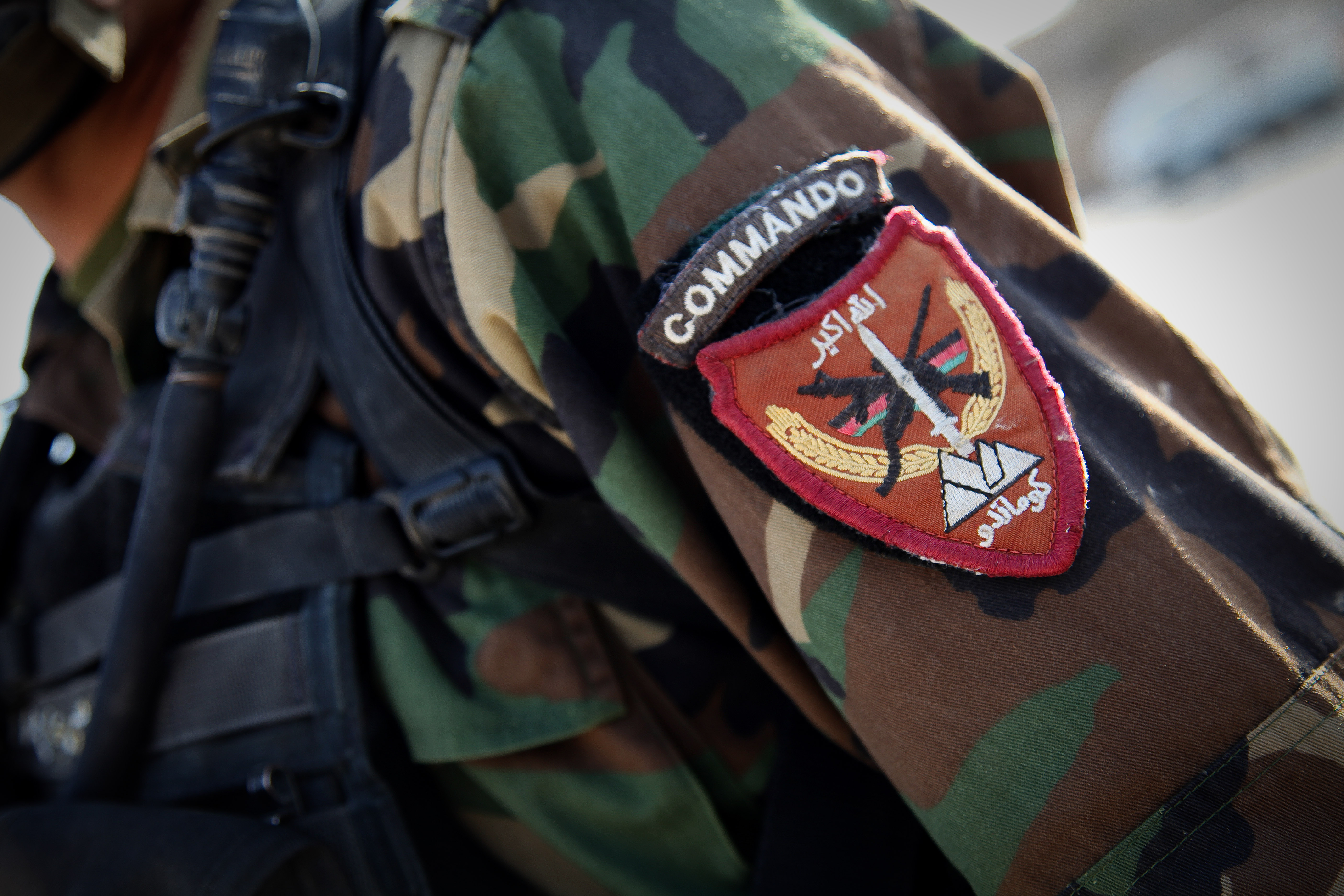 VIRIN: 090928-A-6365W-039 Afghan commandos prepare for an air assault mission at Forward Operating Base Airborne in Afghanistan Sept. 28, 2009. (U.S. Army photo by Sgt. Teddy Wade/Released)